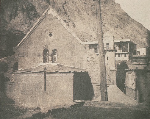 Convent of St, Catherine on Mt. Sinai. Salted paper print by Leavitt Hunt, 1852. Hunt, a photographer and lawyer of independent means, was the first American photographer to visit and photograph the Middle East.